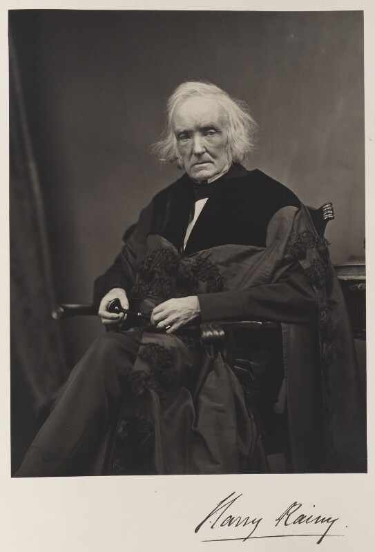 Photo of Harry Rainy, 19th-century pathologist, Professor of Forensic Medicine at the University of Glasgow, and Vice Rector of Glasgow University.